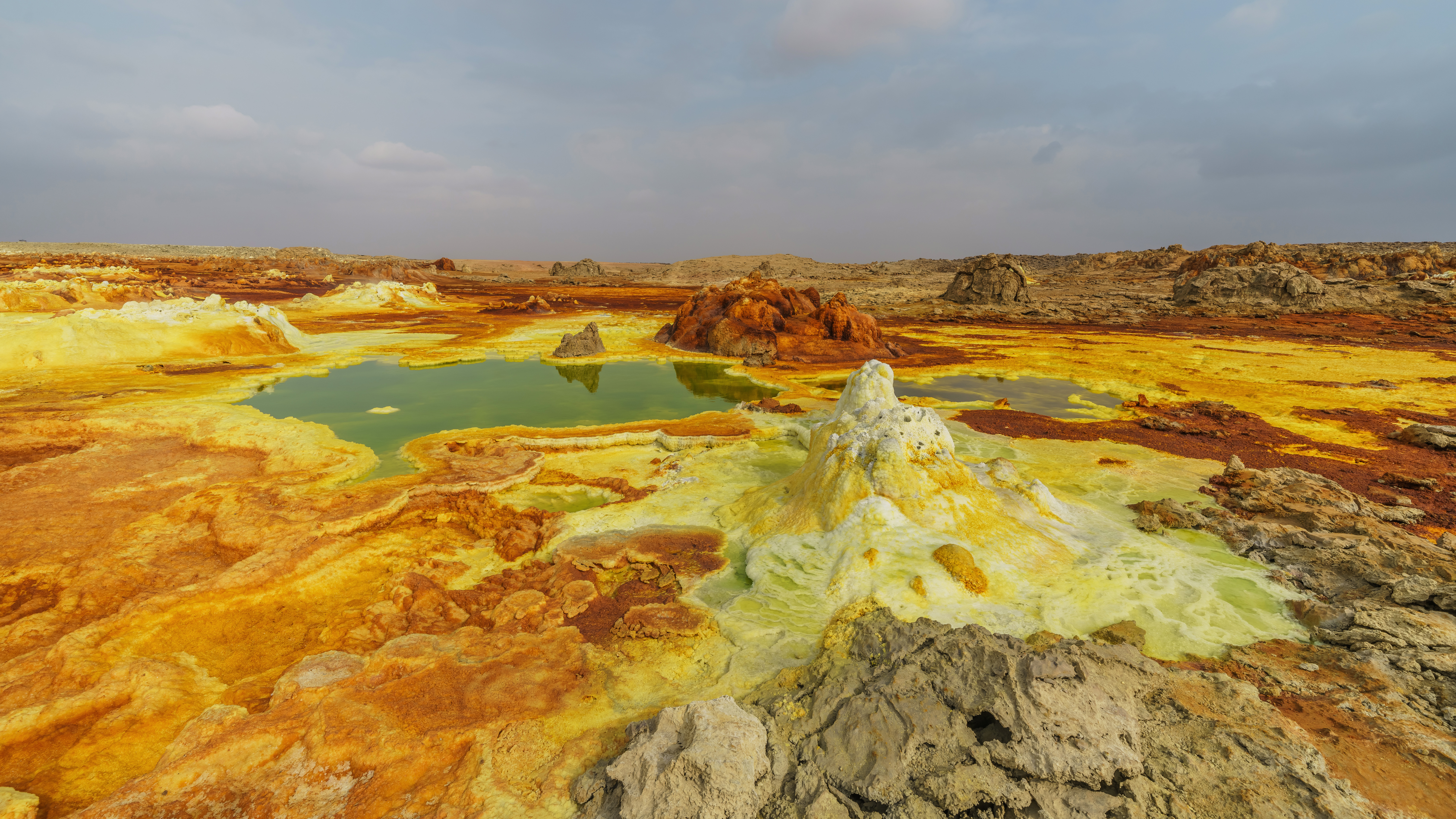 Landscape at Dallol volcano, Afar Region, Ethiopia.